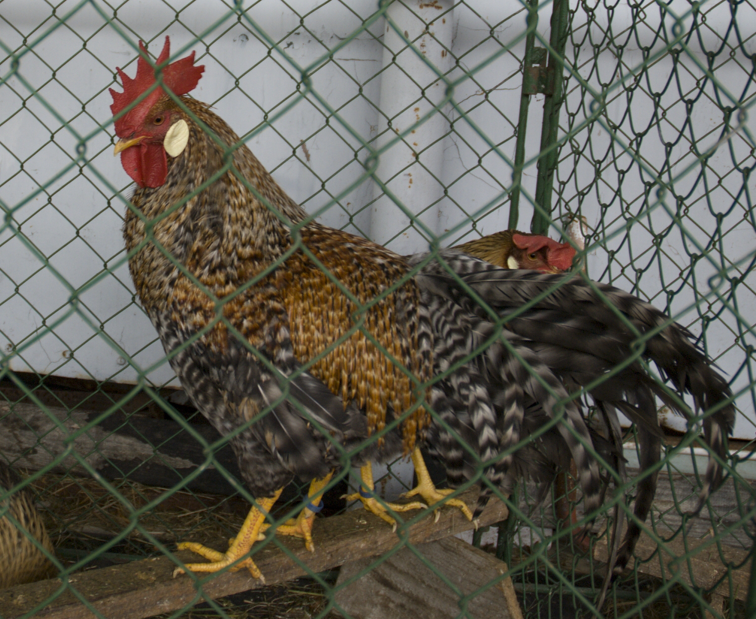 Leghorn, more precisely the Italiana, cream legbar variety. An adult rooster.